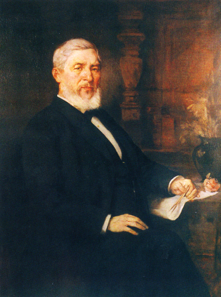 Portrait of the architect and entrepreneur Lüder Rutenberg (1816–1890) from Bremen, Germany.